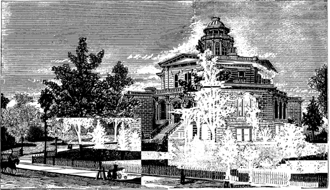 Caption: Chaddock College, Quincy, Ill.